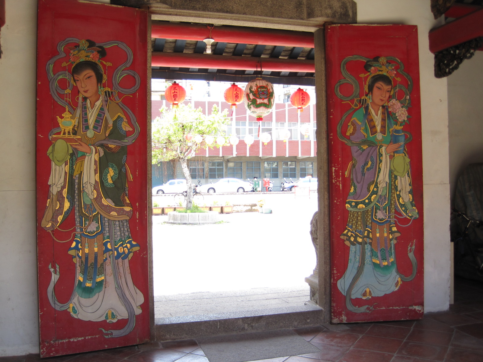 Door goddess in Sanshan Guowang Temple in Tainan, Taiwan.